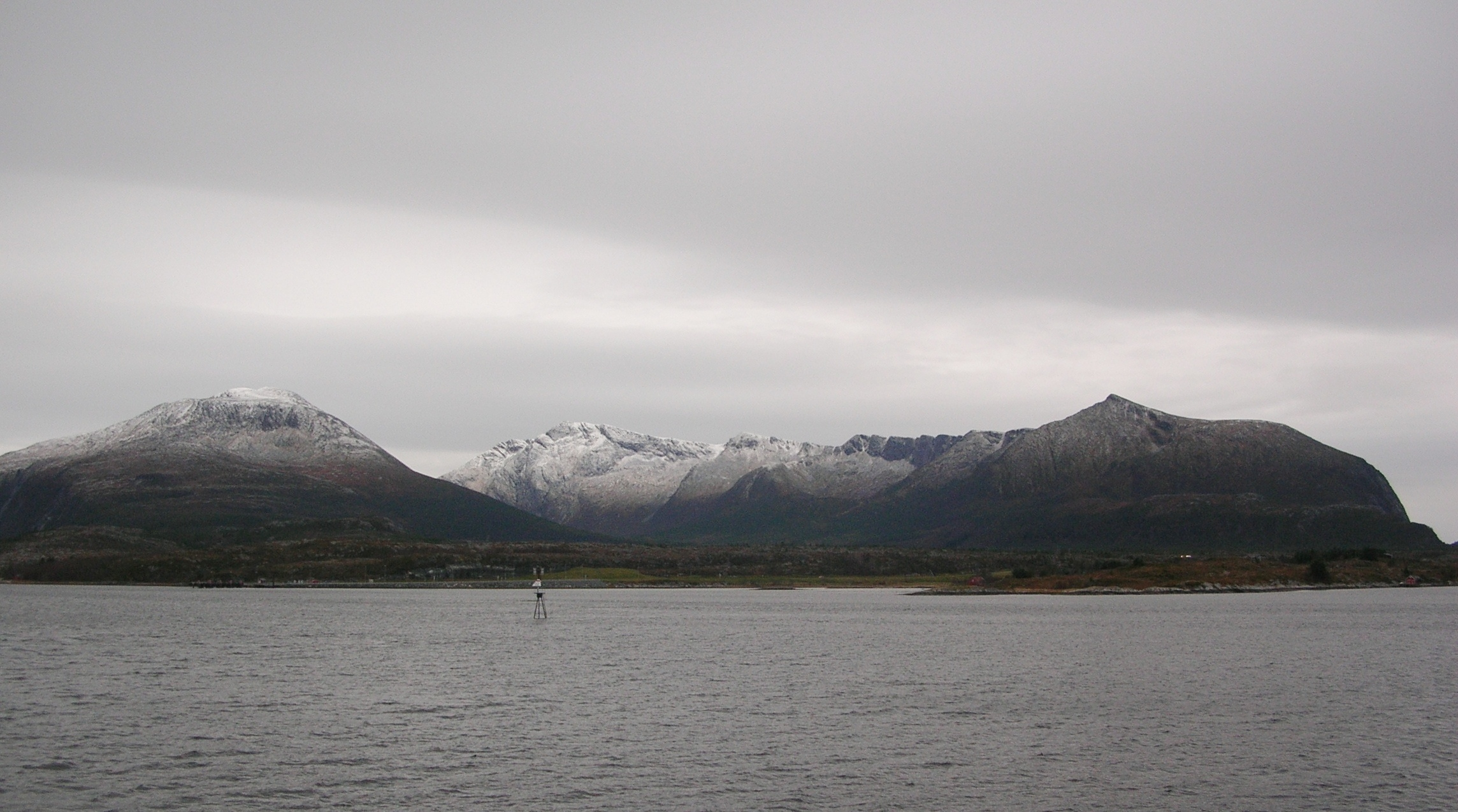 Some of the mountains at Tustna, Aure, Møre og Romsdal. Picture taken on ferry between Smøla and Tustna, crossing Edøyfjorden.